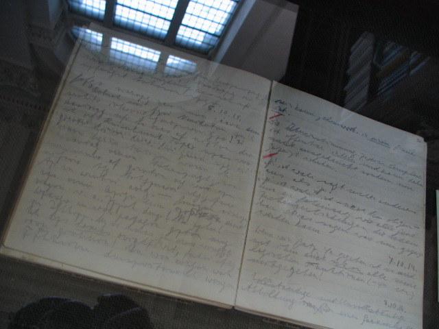 Entries from October 1914 in Ludwig Wittgenstein's diaries (published in English translation as Notebooks 1914-1916. Edited by G.E.M. Anscombe and G.H. von Wright. Blackwell, Oxford 1961). Photo from private archives, made by a. ziel in 2006, in Wren Library, Cambridge.